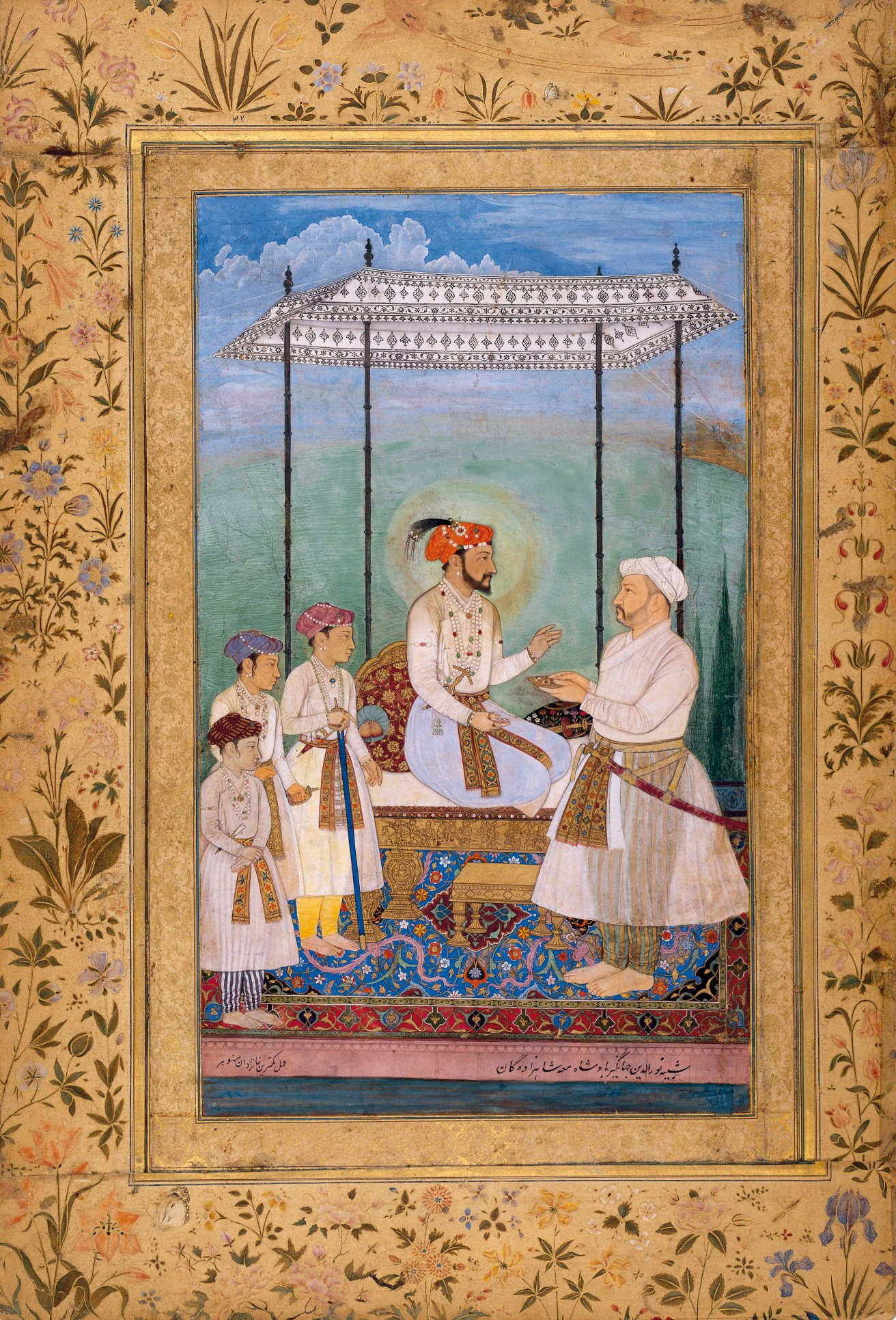 55 Manohar Portrait Of Shah Jahan And His Three Sons ca 1628 Aga Khan Museum, Geneva